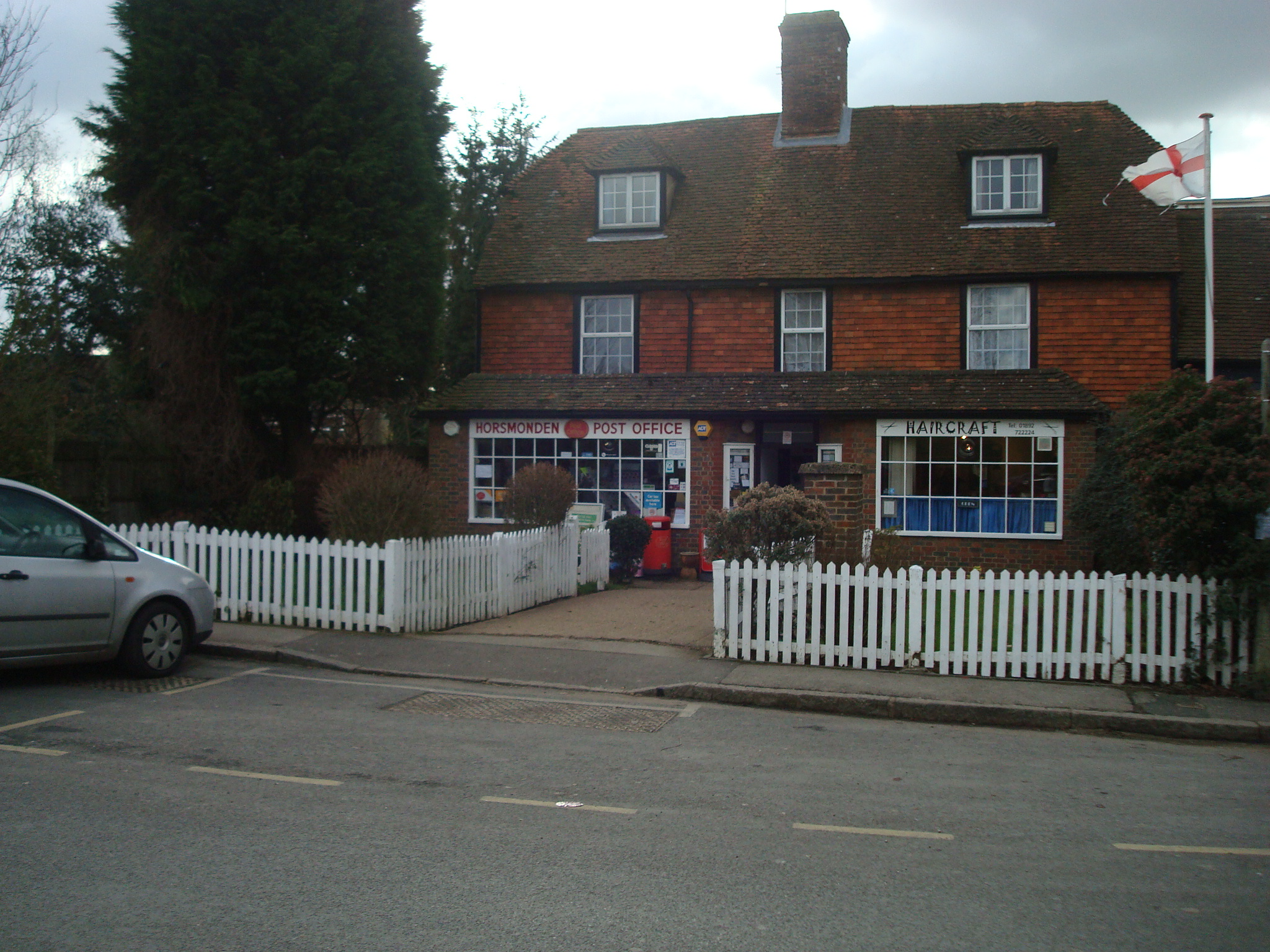 Horsmonden Post Office